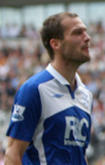 Roger Johnson, captured against Hull City on 19th September 2009.